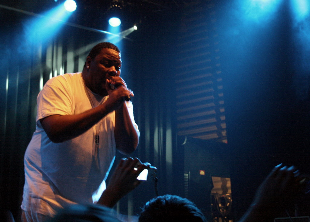 Biz Markie performing at the Club Amager Bio in Copenhagen, Denmark on 25 October 2007.